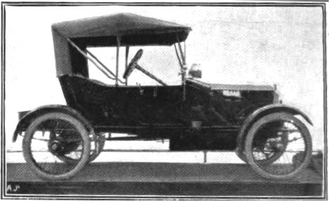 1912 Swift Cycle car as exhibited at the November 1912 Motor Cycle and Cycle Car Show at Olympia, London.